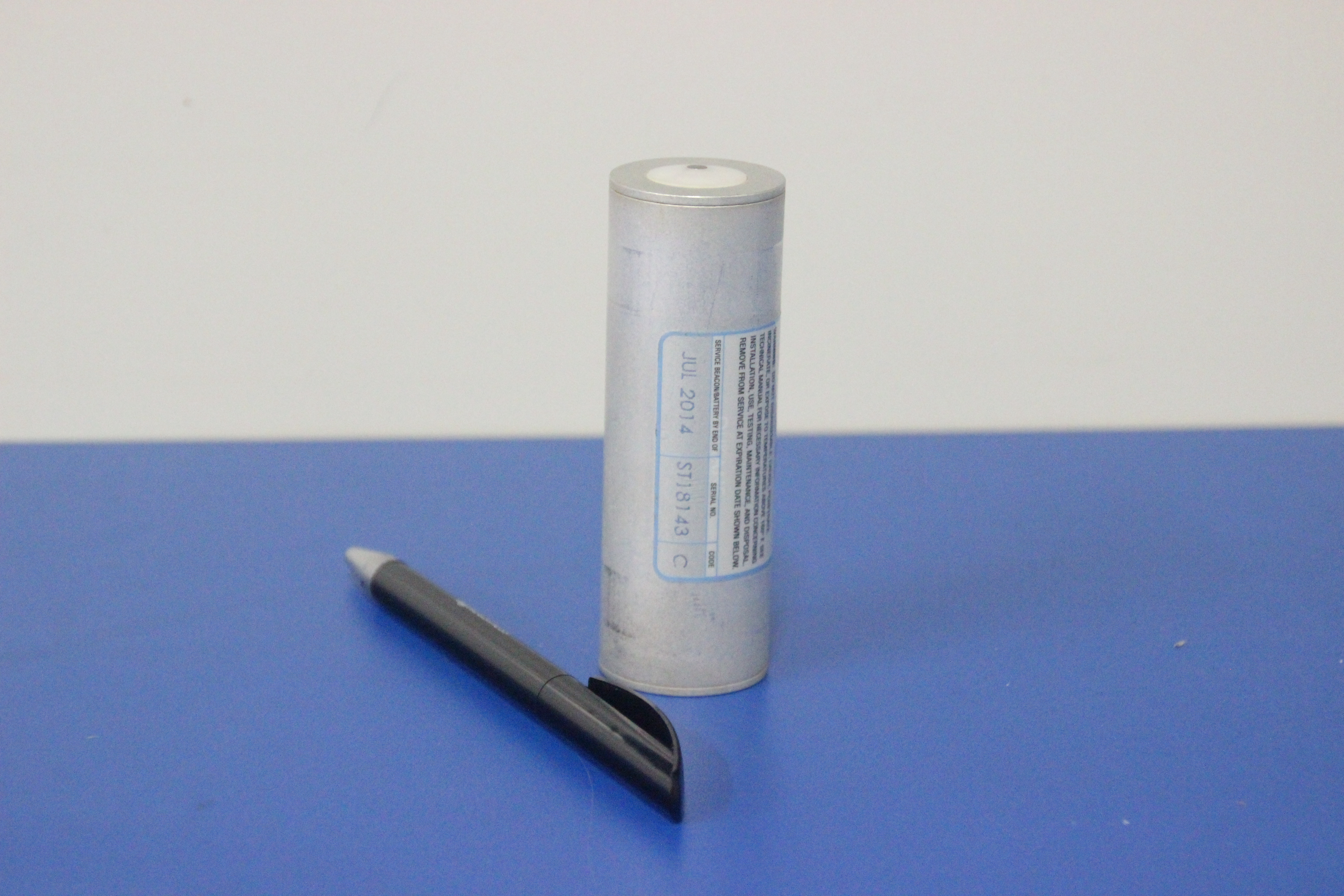 An underwater locator beacon (ULB) for use with a Flight Data Recorder or Cockpit Voice Recorder, with a ballpoint pen to provide scale. The ULB battery life expiry date (July 2014) is visible on the data label.